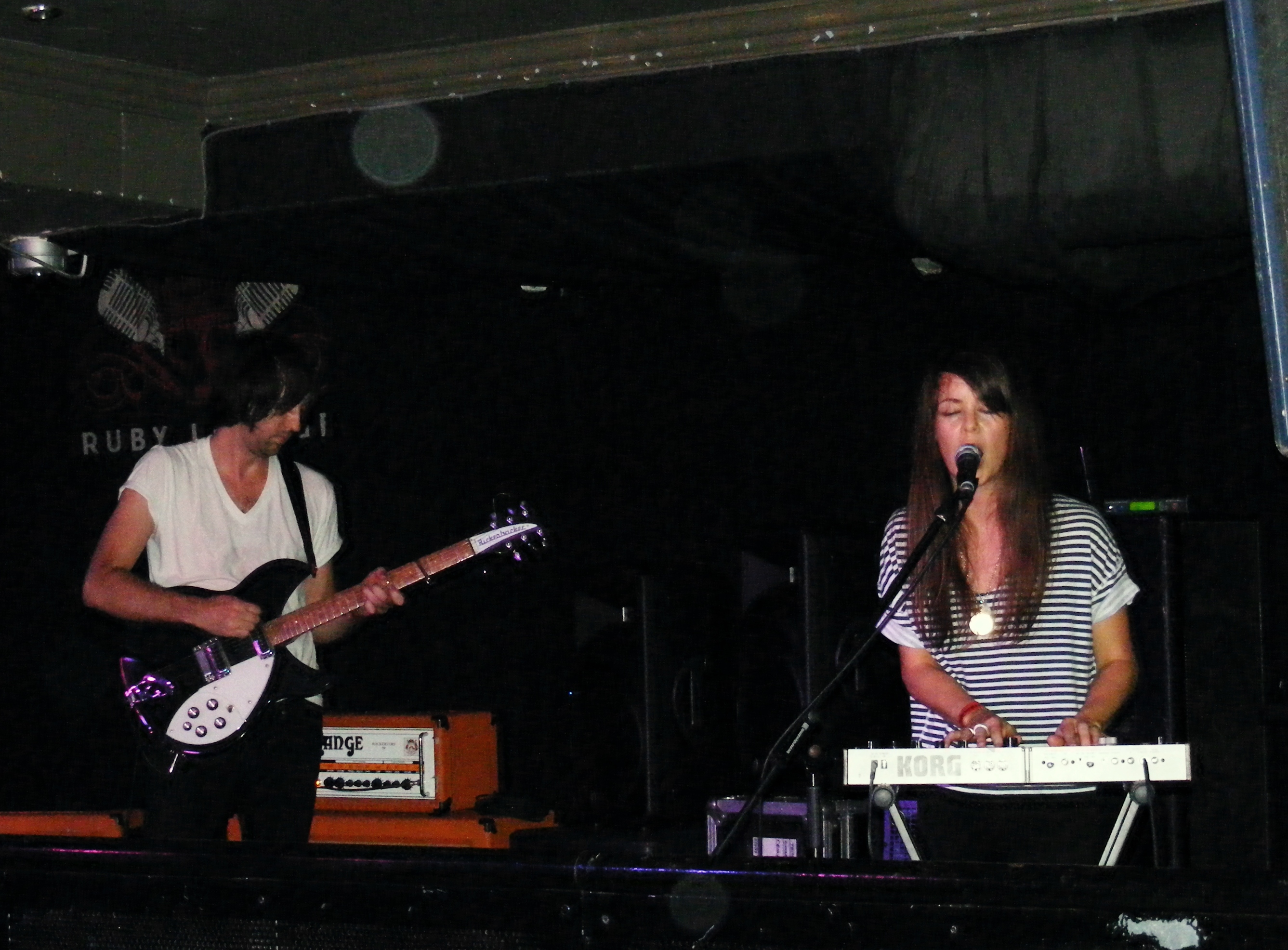 The Hundred in the Hands live at Ruby Lounge, Manchester (2010)